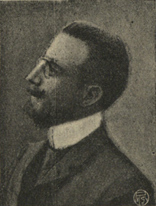 Republican member of the Portuguese 1911 Constituent Assembly.